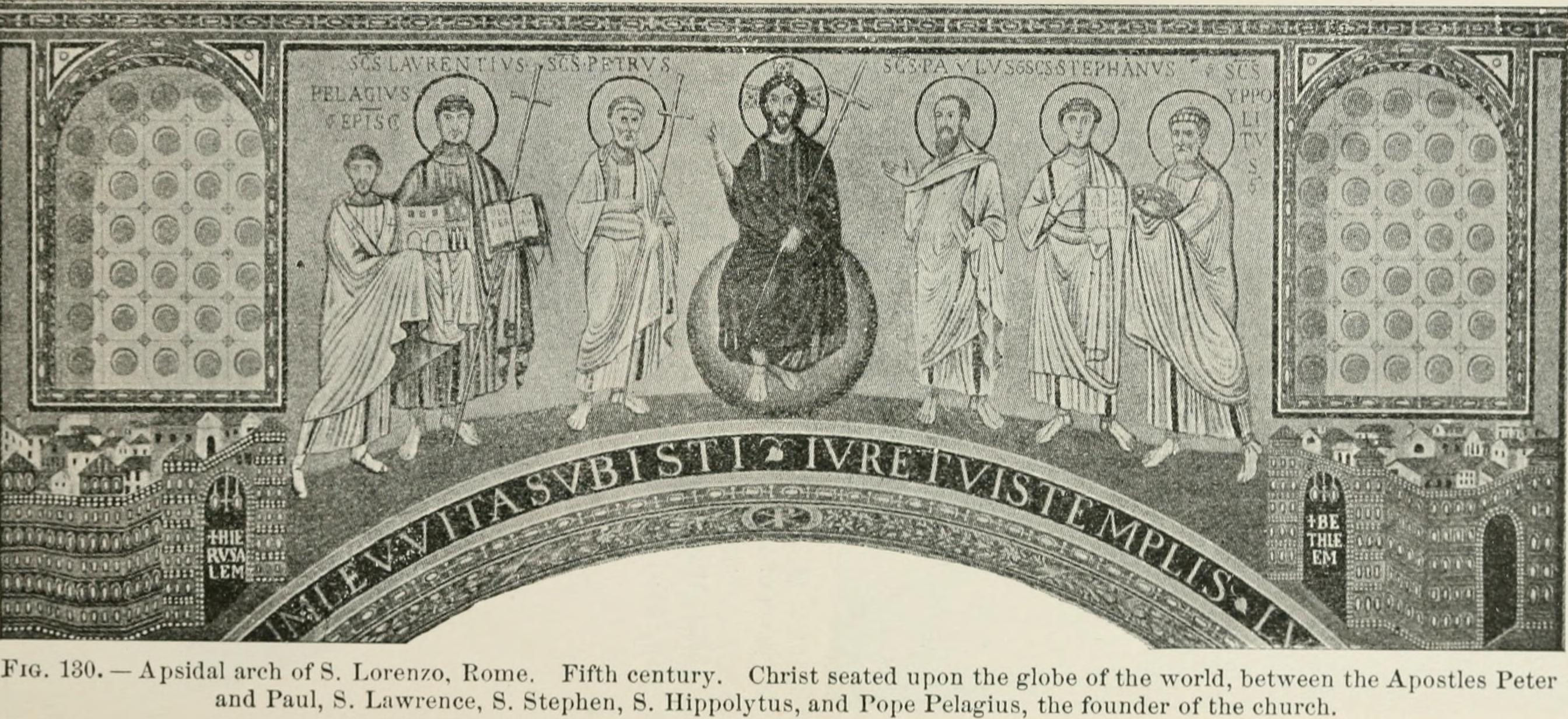 Title: Monuments of the early church Year: 1901 (1900s) Authors: Lowrie, Walter, 1868-1959 Subjects: Christian antiquities Christian art and symbolism Church architecture Church history -- Primitive and early church, ca. 30-600 Publisher: New York, The Macmillan Company London, MacMillan & Co. Text Appearing Before Image: he four streamsare here named: Geon, Fyson, Tigris, Eufrata. The twelvesheep issue as usual from Bethlehem and Jerusalem. The arch above, which has unfortunately been largely de- MOSAICS— S. Lorenzo 313 stroy 3d, represented Apocalyptic scenes ; in the centrlion with azure ground represented the mystic Lamban altar and sur-mounted by a cross,with the book ofthe seven seals at.his feet; on eachside are the lightedcandlesticks; fourangel s approachhim through theclouds; and finallythere were the sym-bols of the Evangel-ists — two of whichhave been de-stroyed. Of thefour-and-twentyelders who stoodbelow nothing re-mains but two armsextending theircrowns. A half centurylater, under Pela-gius II. (579-590),was executed themosaic decorationof S. Lorenzo. Ofthis nothing is leftbut the mosaic ofthe arch (Fig. 130).On the right handof Christ are S.Peter, S. Lawrence,Pelagius offeringthe model of thechurch which hehad restored, andthe town of Jerusa-lem ; on the left, ■e alyin medal-g upon Text Appearing After Image: :)14 PICTOniAL ART S. Taul, 8. Stephen, S. Jlippolytus, and finally the town ofBethlehem. The position of the Apostles is here the reverse